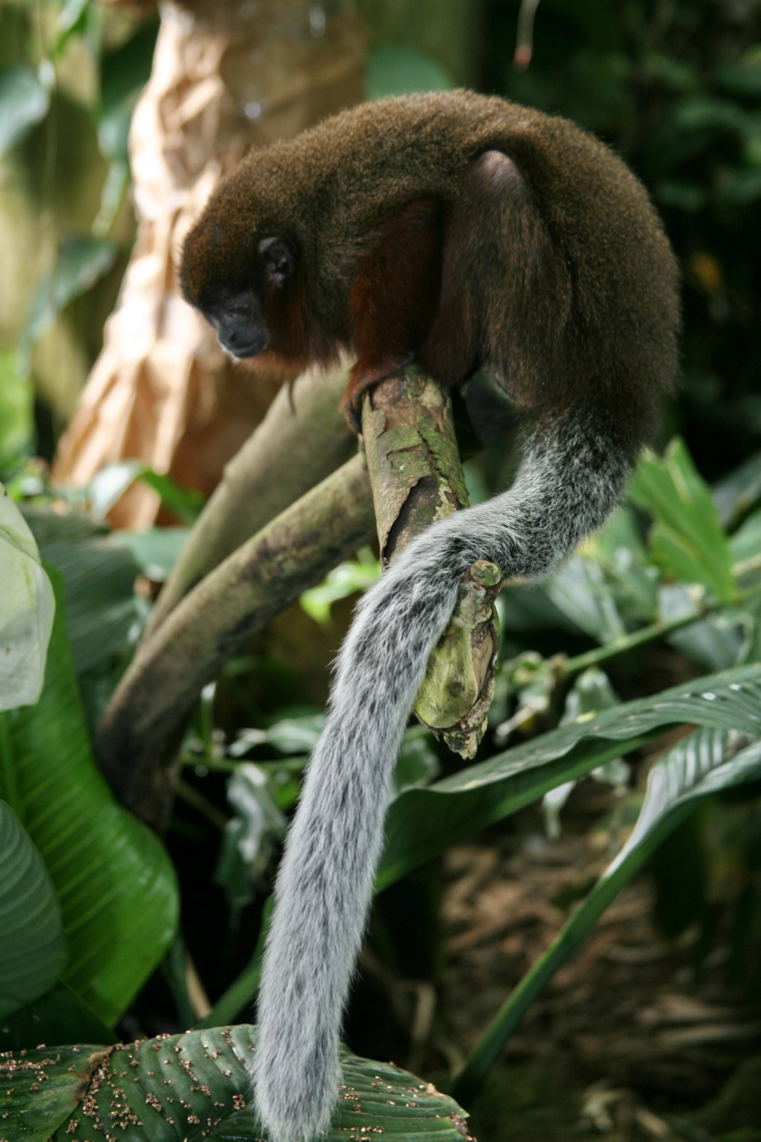 Dusky Titi Monkey (Callicebus brunneus)